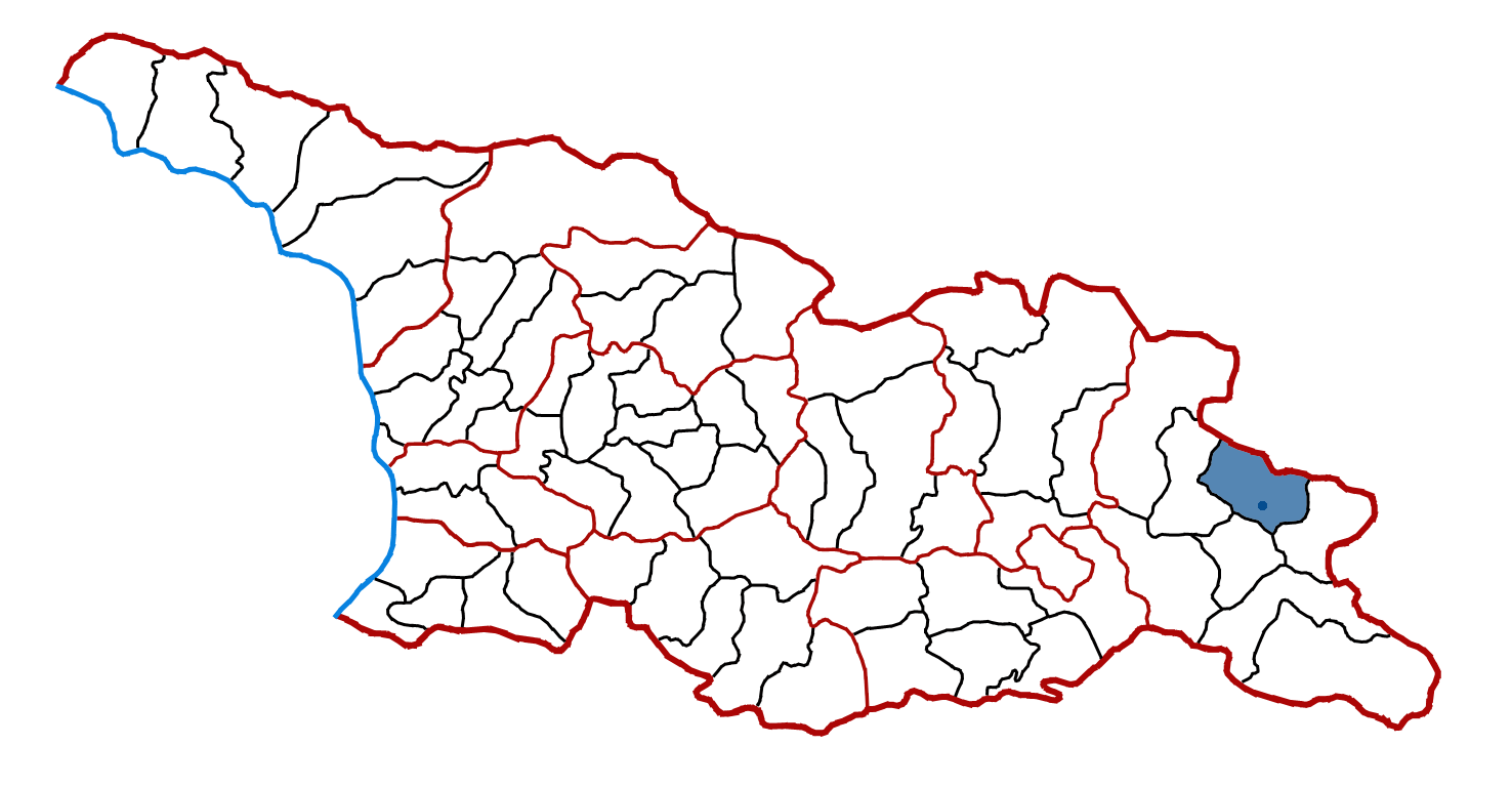 Location of Qvareli district in georgia